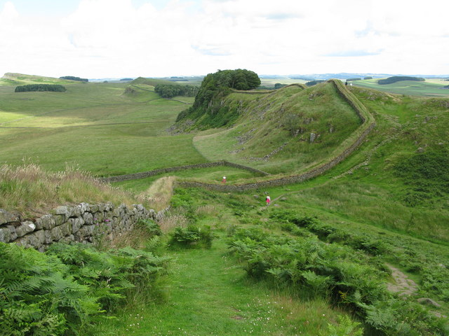 Hadrian's Wall and Housesteads Crags Viewed from Cuddy Crags, this is one of the classic views of Hadrian's Wall.